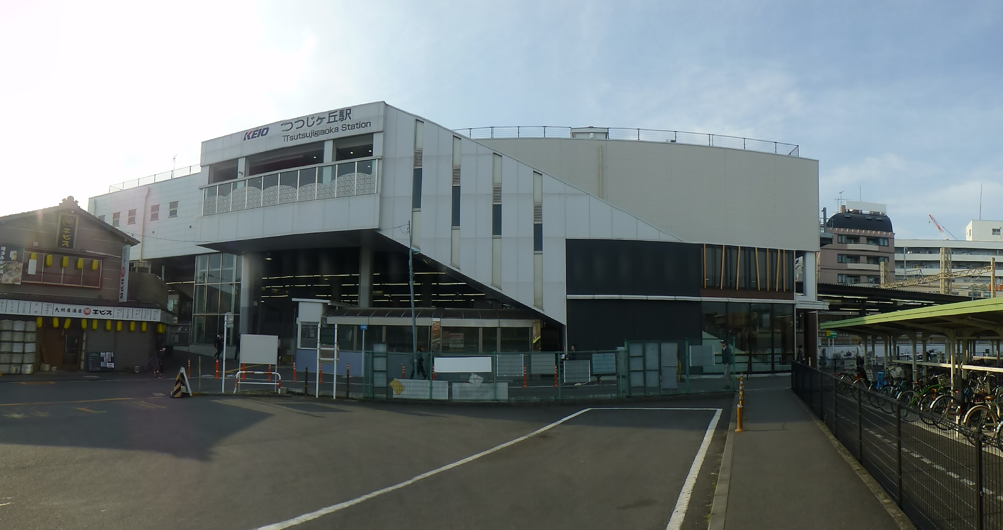 Tsutsujigaoka Station south exit (つつじヶ丘駅の南口)